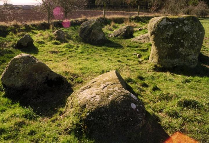 Photograph of the Little Meg kerb cairn or stone circle taken by Martin McCarthy (Tumulus) 2000.